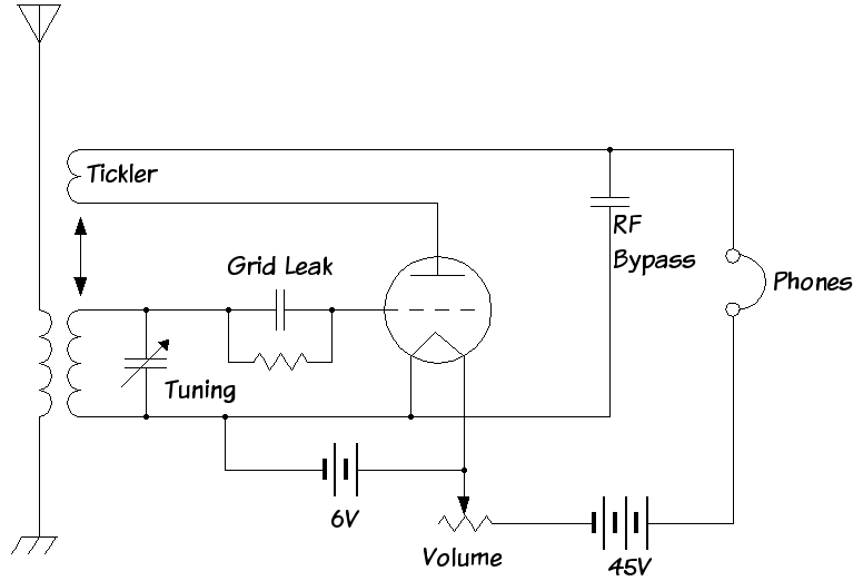 Single tube Armstrong regenerative receiver circuit. The regenerative receiver was invented in 1912 by Edwin Armstrong and widely used until the superhetrodyne became popular in the 1930s. This circuit was widely used until the 1970s in do-it-yourself radio kits to teach people about radio technology. The advantage of the regenerative circuit is that it uses feedback to increase the gain of the amplifying triode tube so that a single tube provides enough amplification for the entire receiver. Second, the feedback also increases the selectivity (Q_factor) of the tuned circuit, increasing the ability of the receiver to reject nearby interfering signals. The "tickler coil" introduces a small amount of the output signal from the plate circuit of the tube into the grid tuned circuit by magnetic coupling, providing positive feedback. The amount of feedback is controlled by moving the tickler coil closer or further from the secondary. In AM reception, the feedback signal is not made large enough to cause the tube to break into oscillation, but only enough to increase the voltage gain greatly at the input frequency. The "grid leak" resistor and capacitor provide a DC bias for the tube grid. Since the tube must also function as a demodulator, rectifying the AC radio signal to extract the audio, the grid must be biased at "cutoff", a few volts negative with respect to the filament, so that it only conducts on the positive half-cycles of the radio wave. The "grid leak" generates this voltage from the tube itself. When the grid becomes positive on the positive swings of the input, electrons are attracted to it, causing a grid current. The grid leak capacitor stores this charge to bias the grid negative. The resistor partly discharges the capacitor during the negative half-cycles to control the size of the bias voltage.